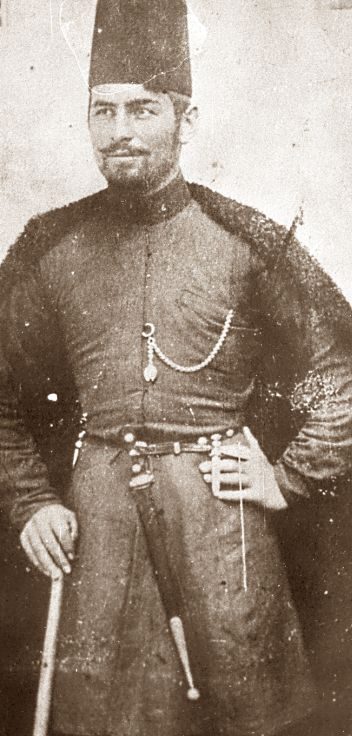 Dym Adam Адыгэбзэ: Дым Iэдэм